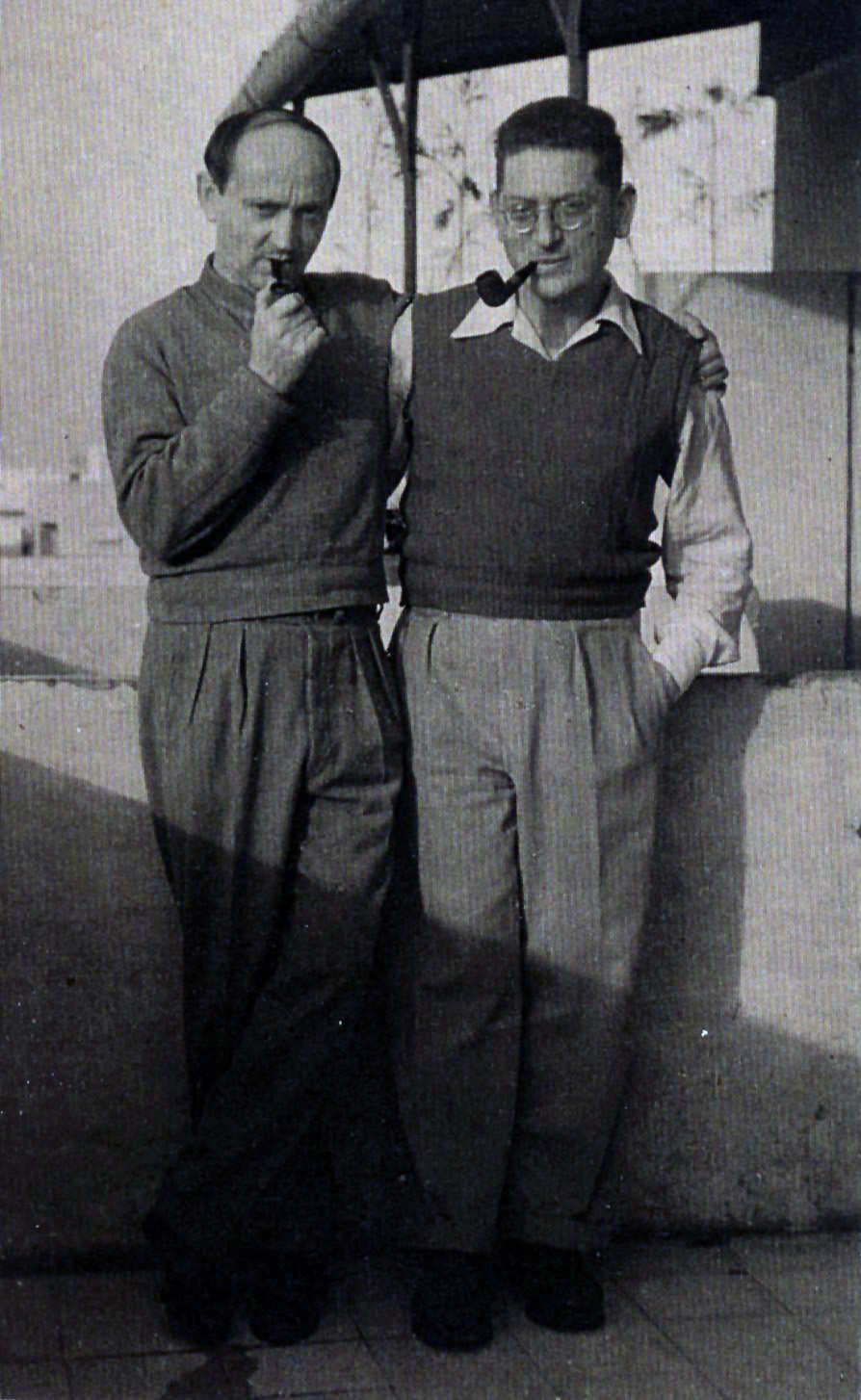 The composers Mordechai Seter and Alexander Boskovich in Palestine in the 40's